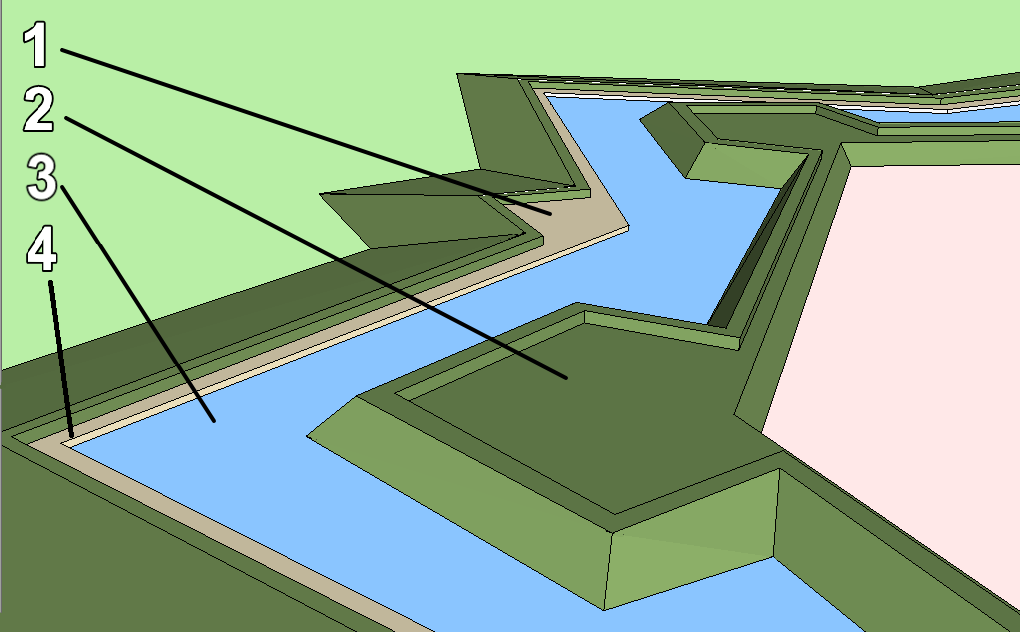 weapons locker as part of fortifications